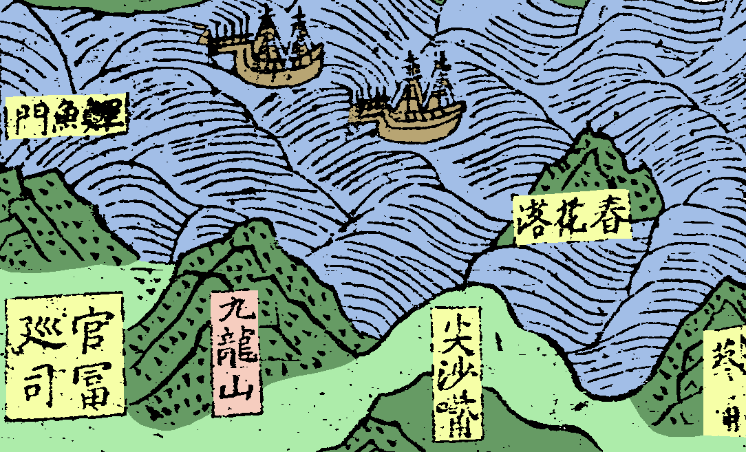 Position of Kowloon Hill in Yuet Tai Kei, a map in Ming dynasty（Wanli,In 1577 -1595）.